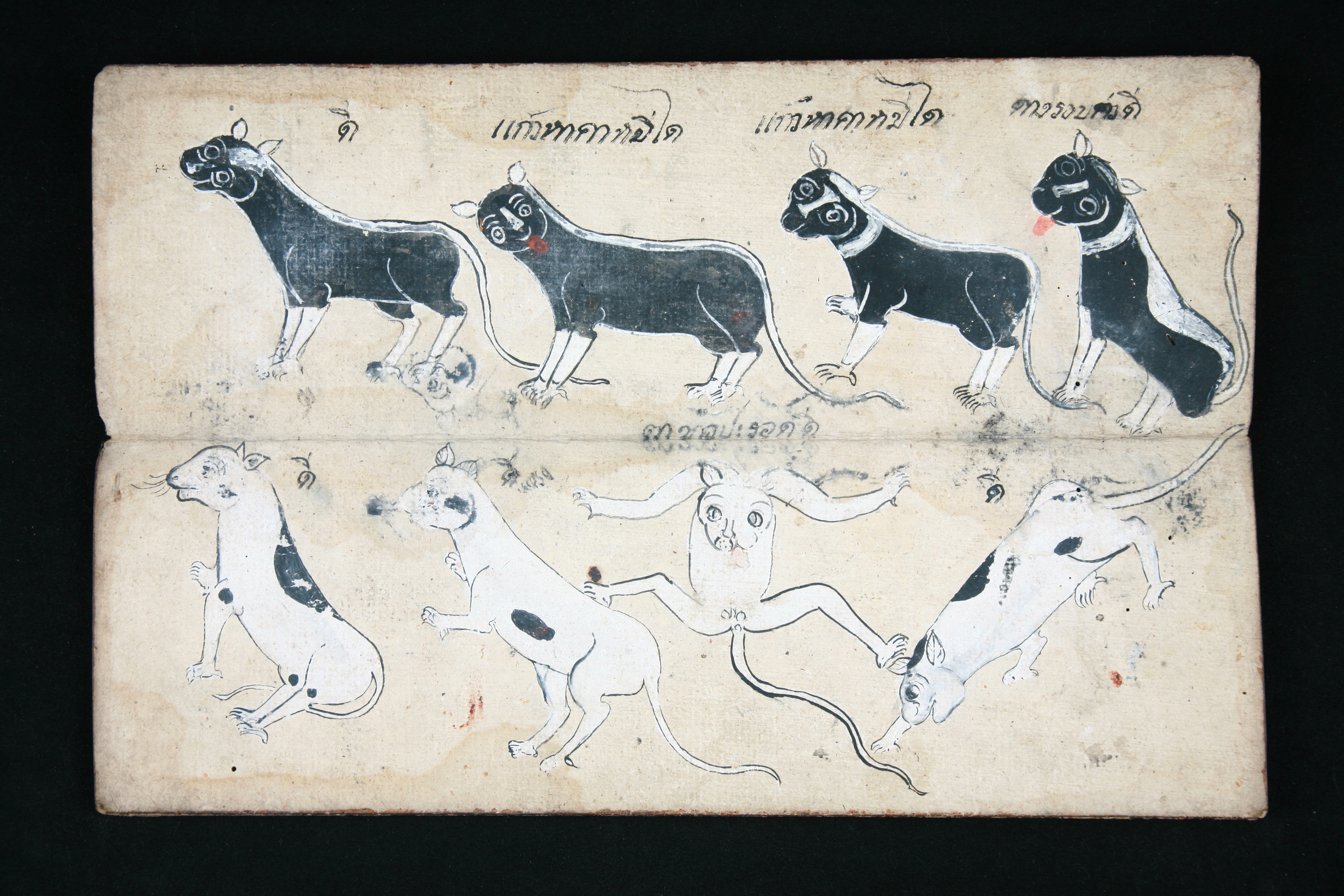 Tamra khao manee cat in Bangkok in number 241